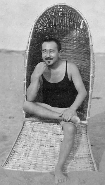 a Japanese painter, 萬 鉄五郎 (Yorozu Tetsugoro)